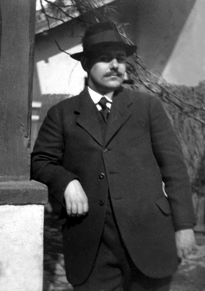 Toma T. Socolescu. Picture taken around 1920 We are the only heirs and descendants of Toma T. Socolescu (died in 1960 in Bucharest) and therefore owner of all his intellectual rights.